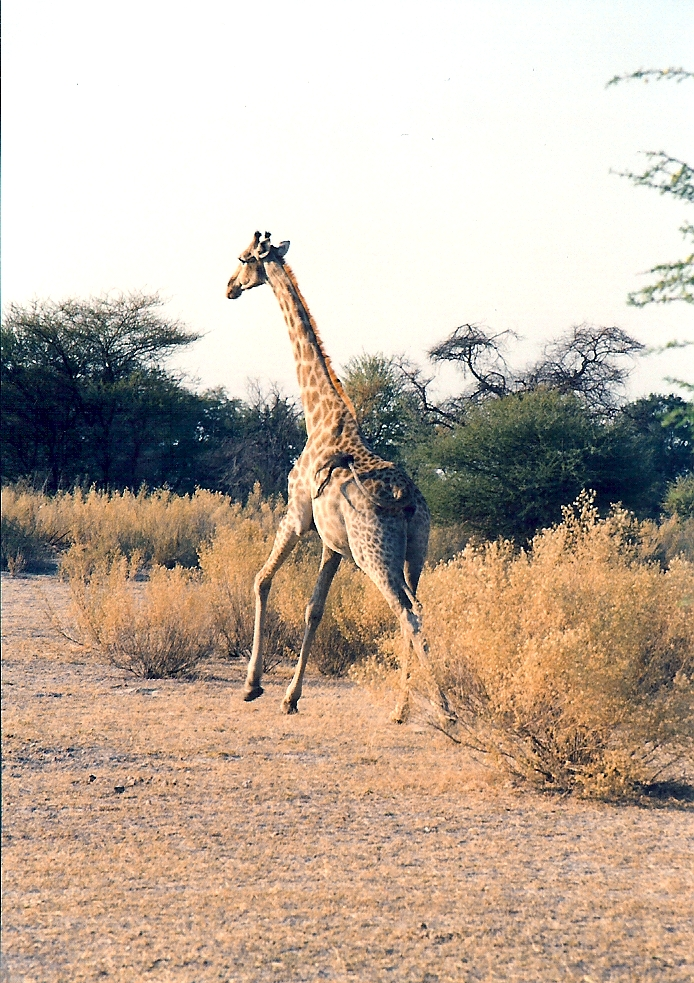 Young female giraffe startled from her breakfast in the Okavango Delta, Botswana. Taken 1995 on film, photo 1 of 3.